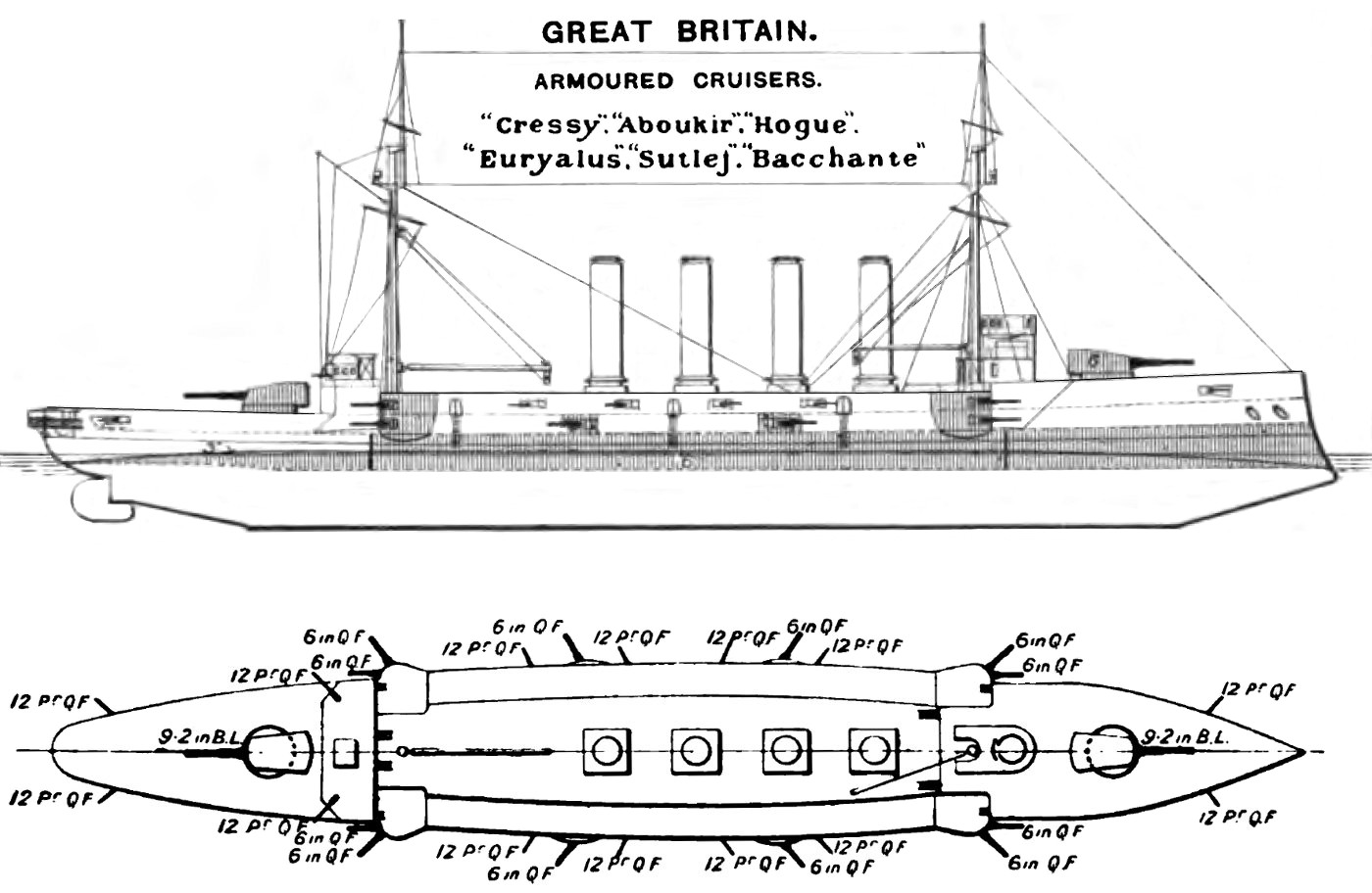 Right elevation and deck plan depicting British Cressy class armoured cruiser. Top diagram (right elevation) shows armour thickness in inches. Bottom diagram (deck plan) shows gun sizes in inches.